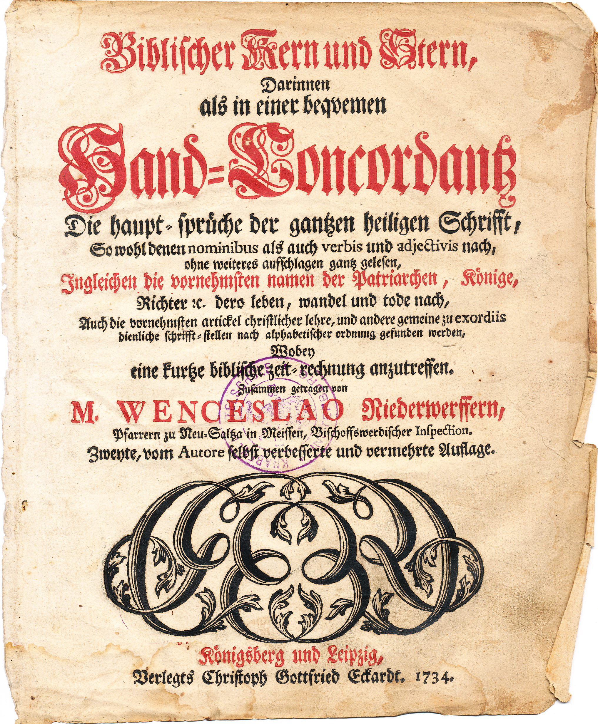 Scan of the title page of a concordance of the bible, published in 1734 at Königsberg and Leipzig by Christoph Gottfried Eckardt.